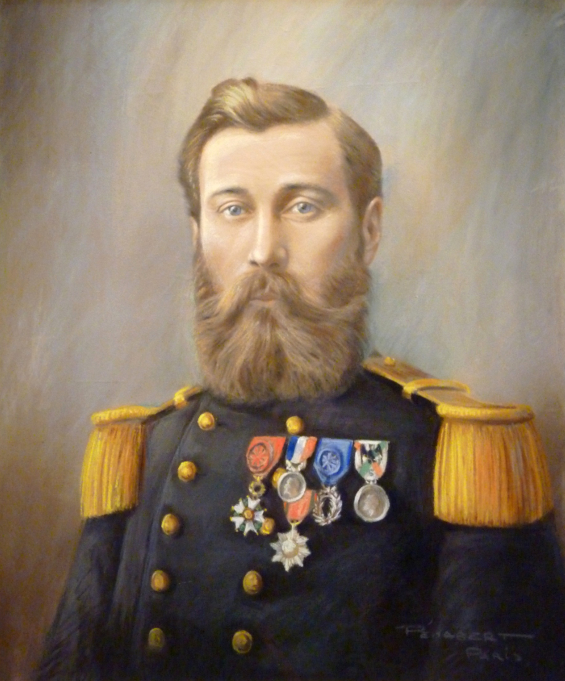 Louis Delaporte is a French explorer born in Loches on January 11, 1842 and died in Paris on May 3, 1925. This portrait is signed lower right: Penabert Paris. Atelier Georges Penabert, private collection.